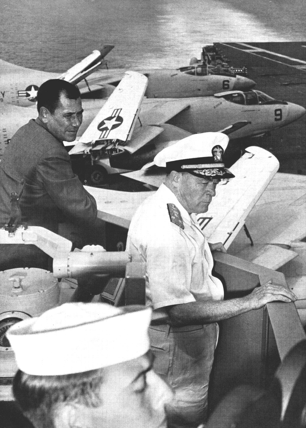 The U.S. Navy Secretary of Defense, Thomas S. Gates, and VADM Charles R. Brown, Commander United States Sixth Fleet, watch flight operations aboard the aircraft carrier USS Saratoga (CVA-60) in the Mediterranean Sea, in 1958. Saratoga, with assigned Carrier Air Group 3 (CVG-3), was deployed to the Mediterranean Sea from 1 February to 1 October 1958.